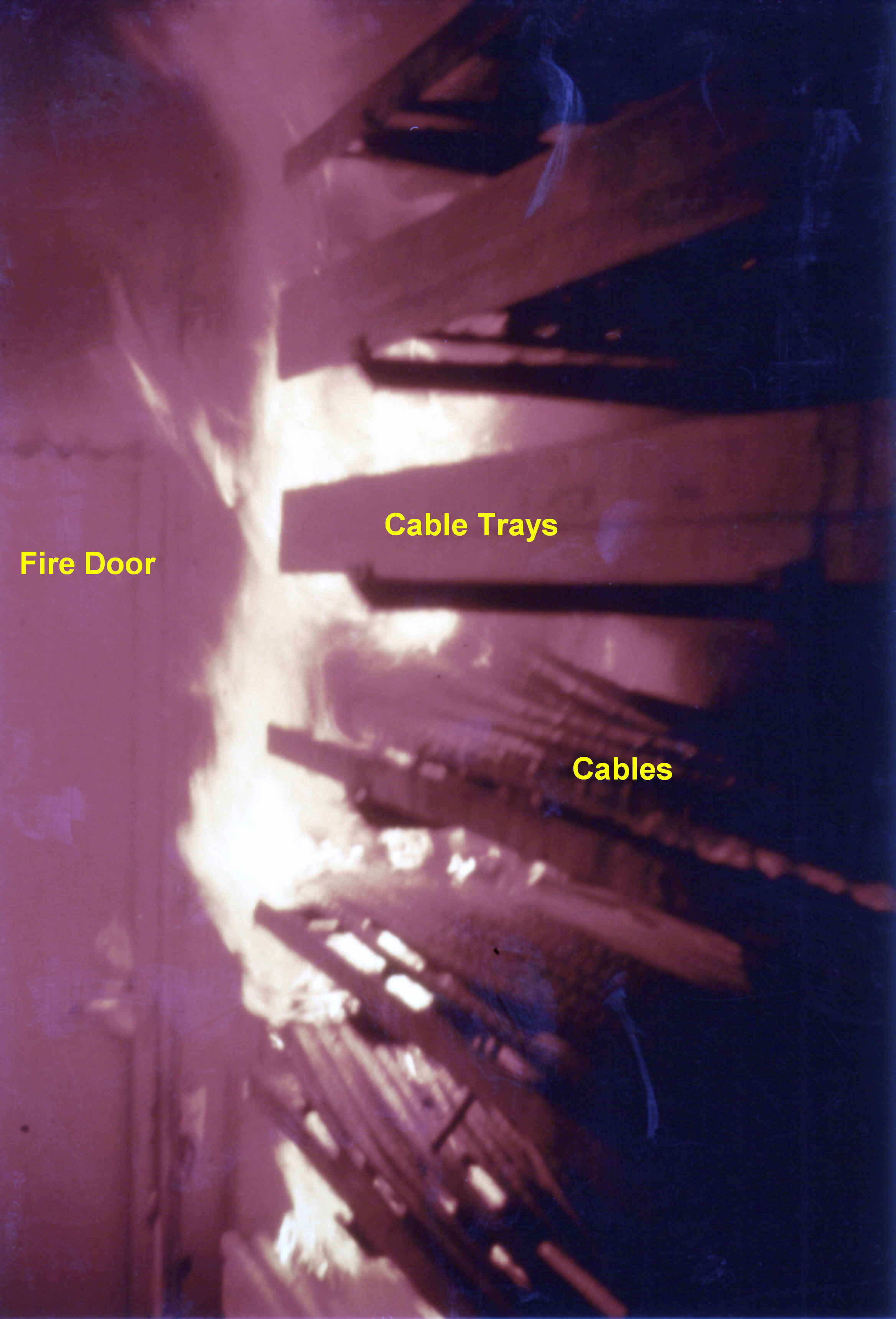 Image 2 of 5 of governmental fire test in Sweden. This small fire house was loaded with cable trays full of cables. These were connected between the floors, causing cable penetrations between fire compartments. When the penetrants were installed, the government invited their local firestop manufacturers to install their products. Kindling was placed below the trays. These kindling blocks were set on fire. The fire quickly engulfed all trays. Results were mixed. An enormous amount of smoke was generated before the fire was extinguished. Trays twisted and buckled.